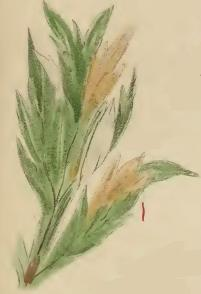 Stainton’s Natural History of the Tineina (1855–1873): Leucospilapteryx omissella - a sprig of Artemisia vulgaris with mined leaves